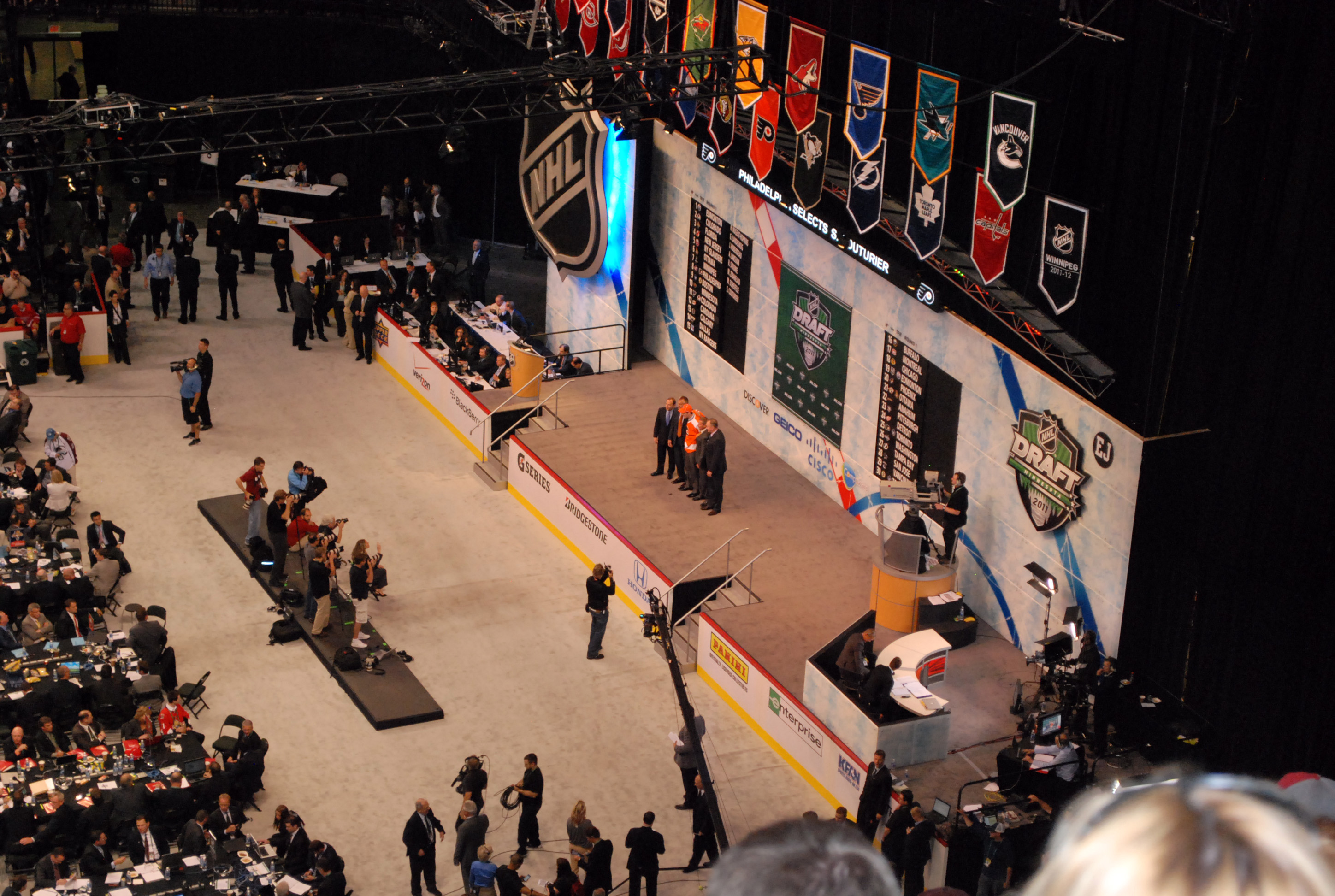 8 Sean Couturier Photo